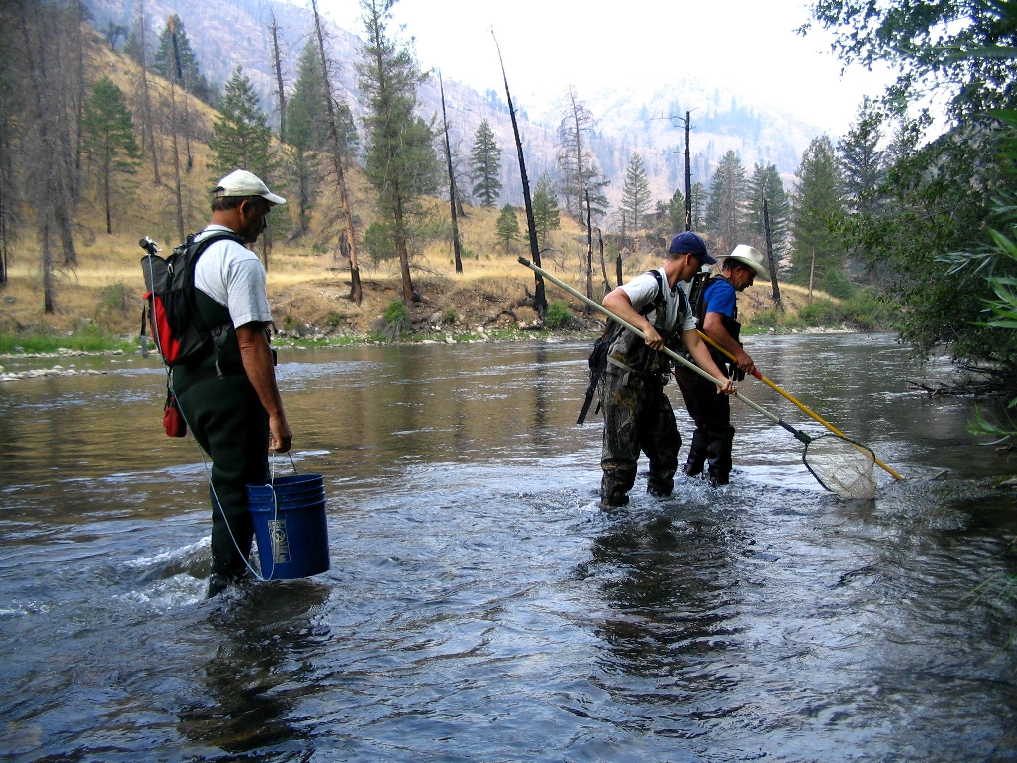 Electro-shocking for juvenile wild salmon (parr) to PIT-tag for mark recapture study in Salmon River drainage in Idaho wilderness. Idaho, Frank Church Wilderness, Big Creek.